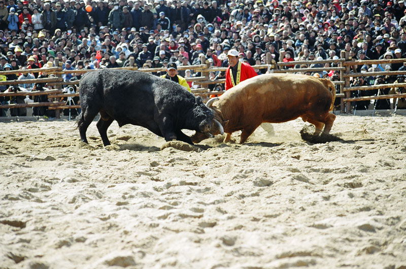 A scene of the Cheongdo Bullfighting Festival, Cheongdo County, North Gyeongsang Province, South Korea